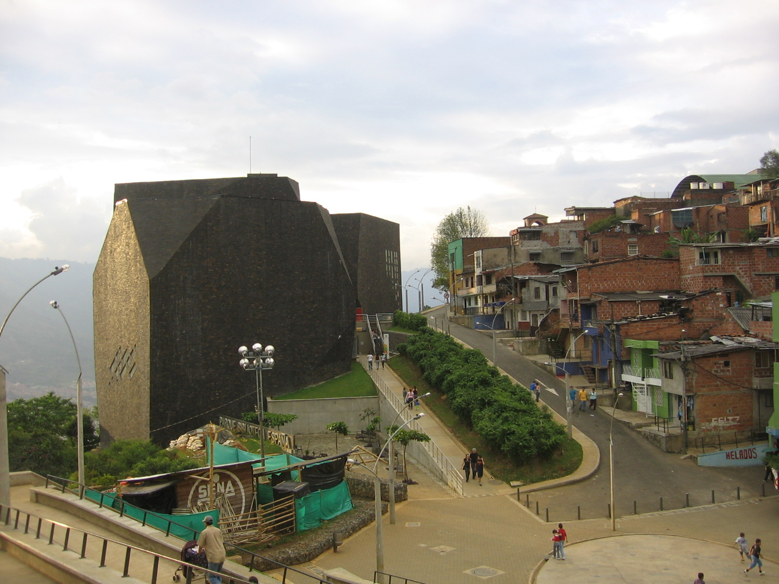 The building of Plaza España Library in the hill-quarter of Santo Domingo Savio, North-East Medellín, Colombia. The library was built during the administration of Major Fajardo in one of the most violent districts of the city as a peace process to involve marginalized communities.